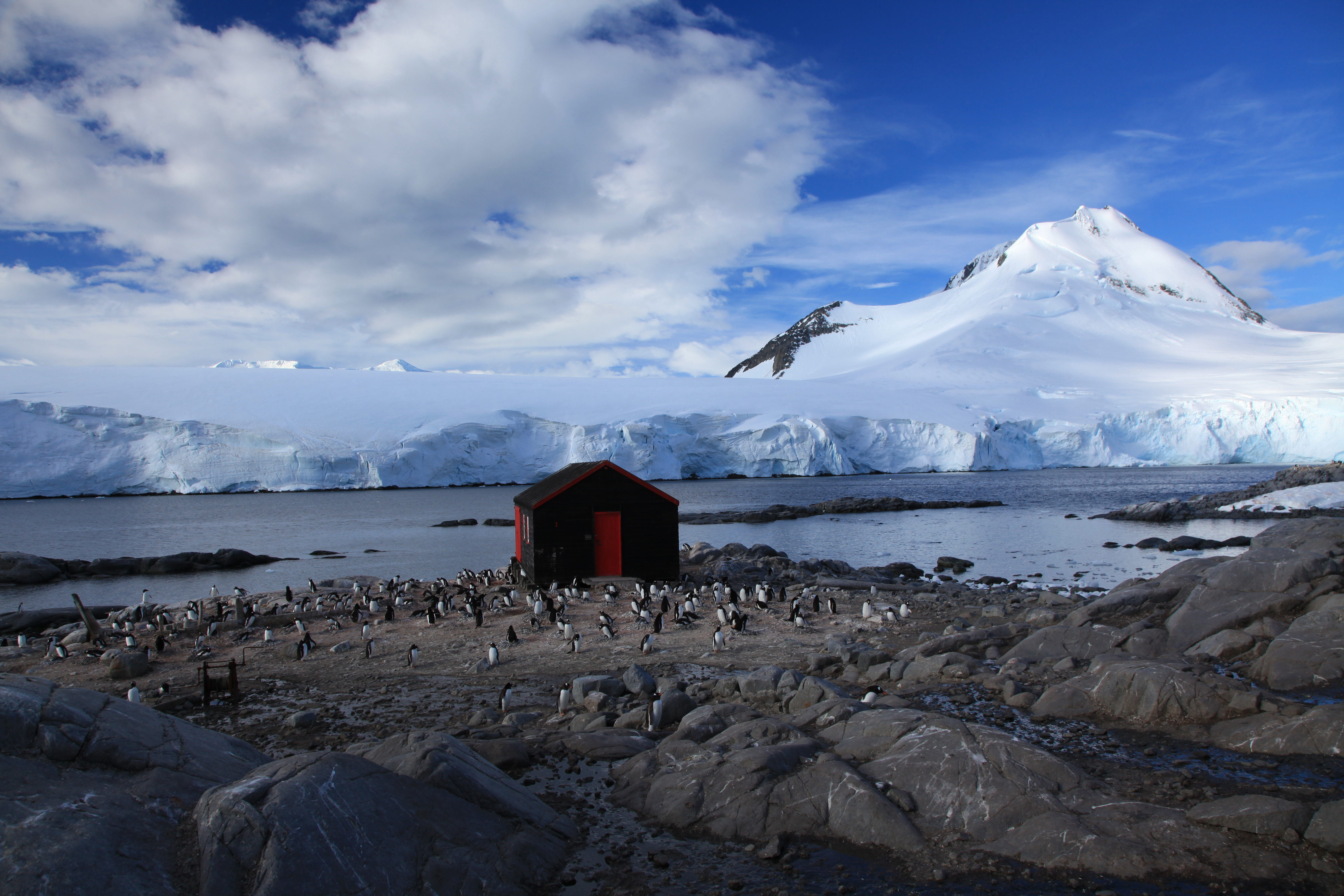 The boathouse of British Base A is surrounded by nesting Gentoo Penguins, with Wiencke Island in the background.